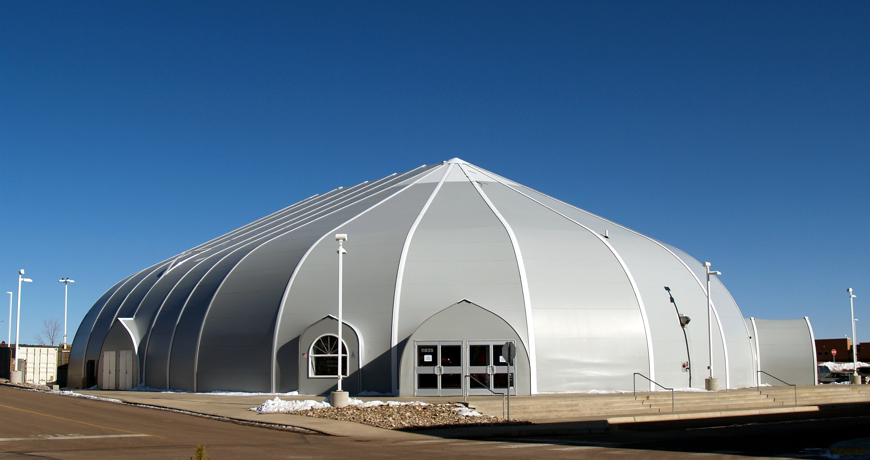 "The Tent" at Ted Haggard-founded New Life Church in Colorado Springs, Colorado. Read about the photographer's experience taking this photo.